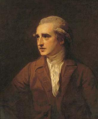 Charles Francis Greville FRS (12 May 1749–1809), by George Romney...... younger son of Francis Greville, 1st Earl of Warwick, founder of the port of Milford Haven